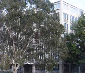 ANZAC Parade, Canberra has two major office blocks flanking the Lake Burley Griffin end: ANZAC Park West, and ANZAC Park East. These complete the documentation of the Parade.